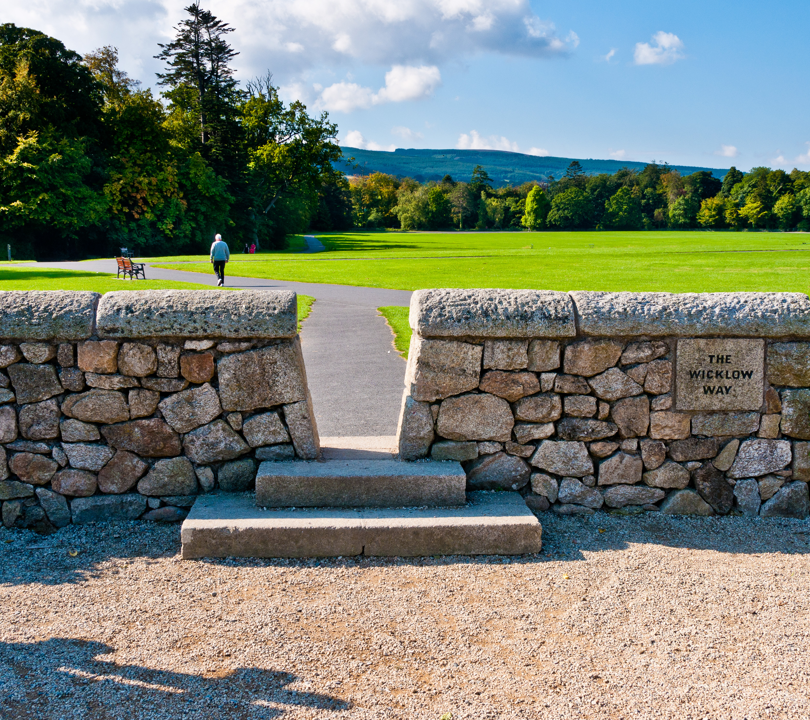 The trailhead of the Wicklow Way in Marlay Park, County Dublin, Ireland. The Wicklow Way is a 132km long-distance National Waymarked Trail that runs from Marlay Park across County Wicklow and ends at Clonegal in County Carlow. The trailhead is denoted by a map board (not shown) and a low stone wall with a stile through which walkers pass to make their first step on the Wicklow Way. The wall was erected in 2006 as part of a series of works to mark the 25th anniversary of the opening of the Way.